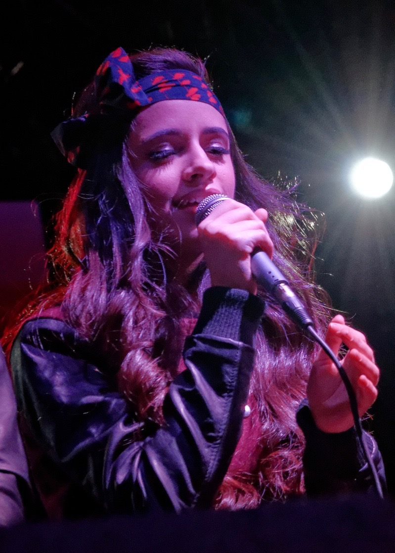 Camila Cabello in a cropped photo from a Fifth Harmony performance on the KIIS Jingle Ball Village Stage at Staples Center in Los Angeles CA on December 6th, 2013.